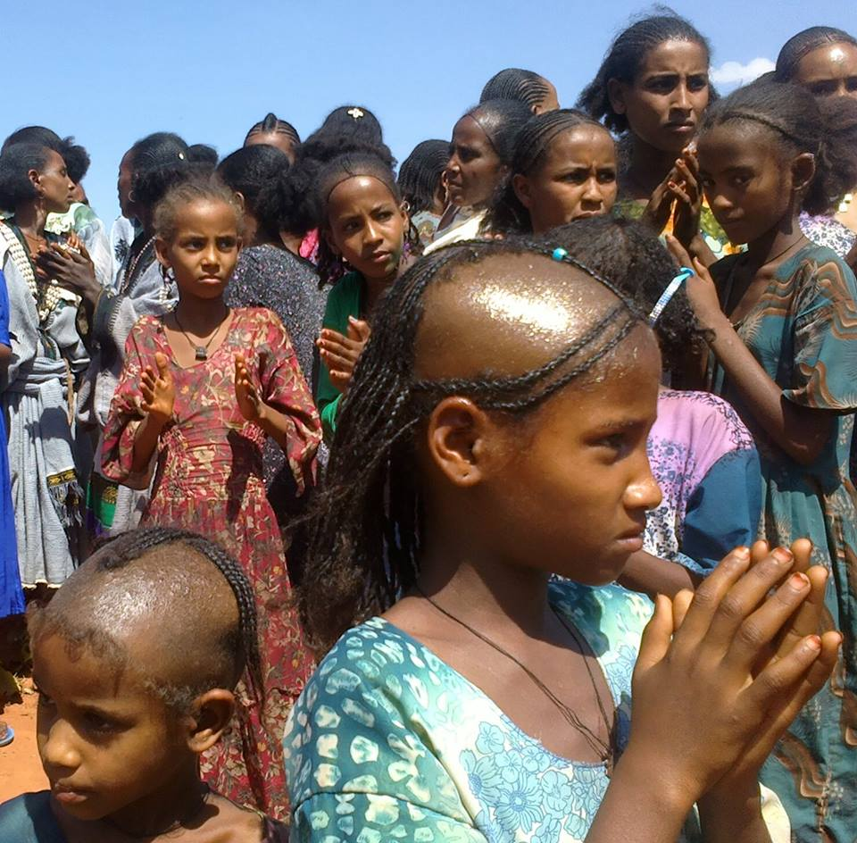 The picture is taken in Ethiopia, Waghimra zone, specifically Gifala area. This is a cultural hair style of this area of this age. This is an image of Cultural Fashion or Adornment from Ethiopia